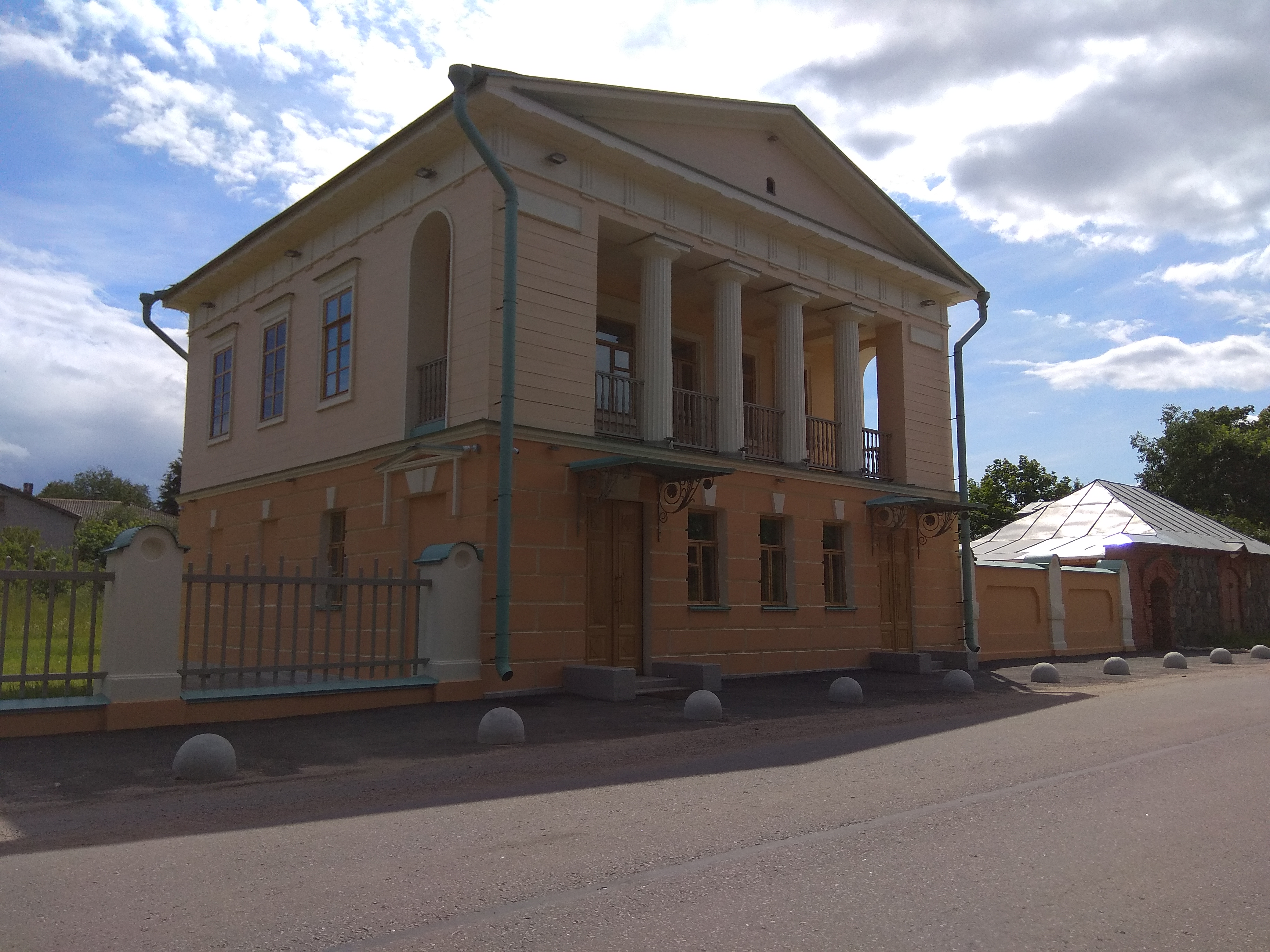 The Putevoi dvorets (road palace) in Korostyn village. Shimsky district, Novgorod oblast, Russia